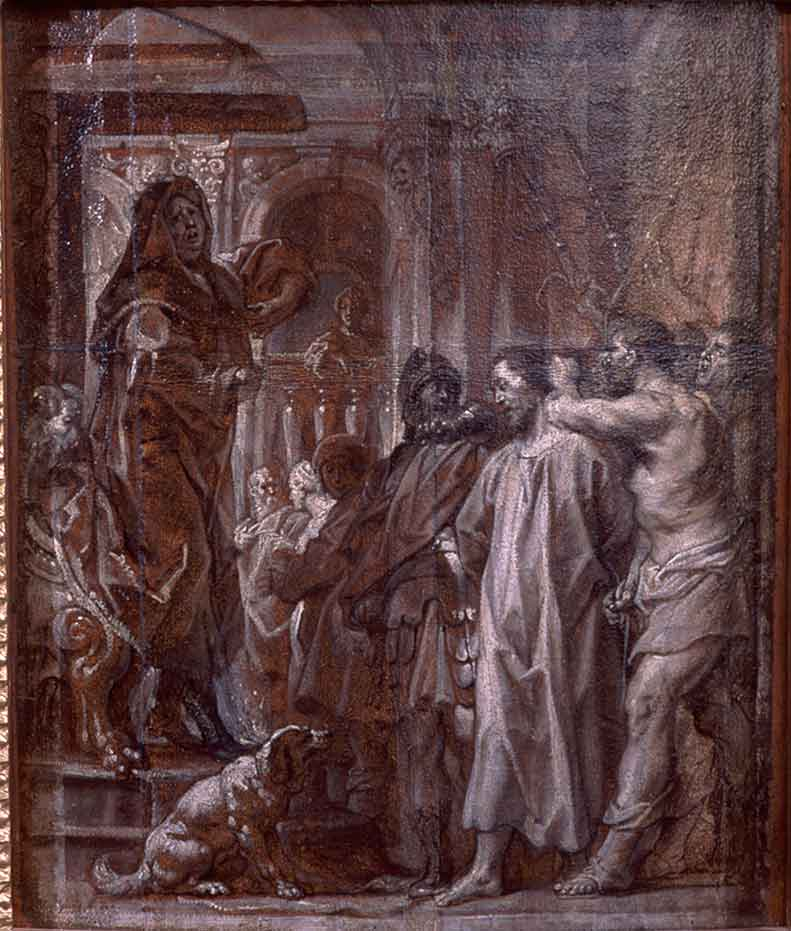 Christ before Caiaphas.